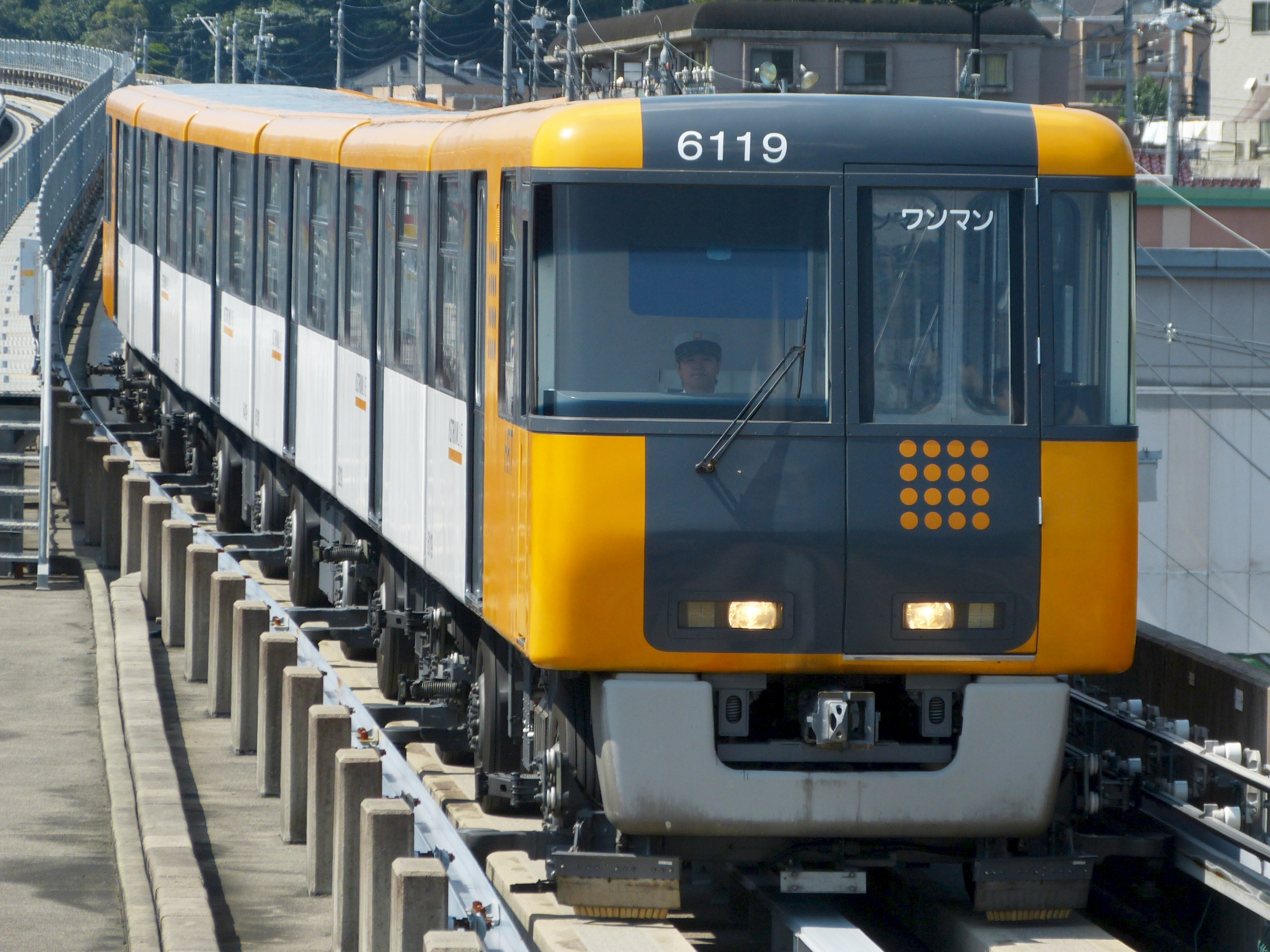 Astram 6000 series EMU set 19